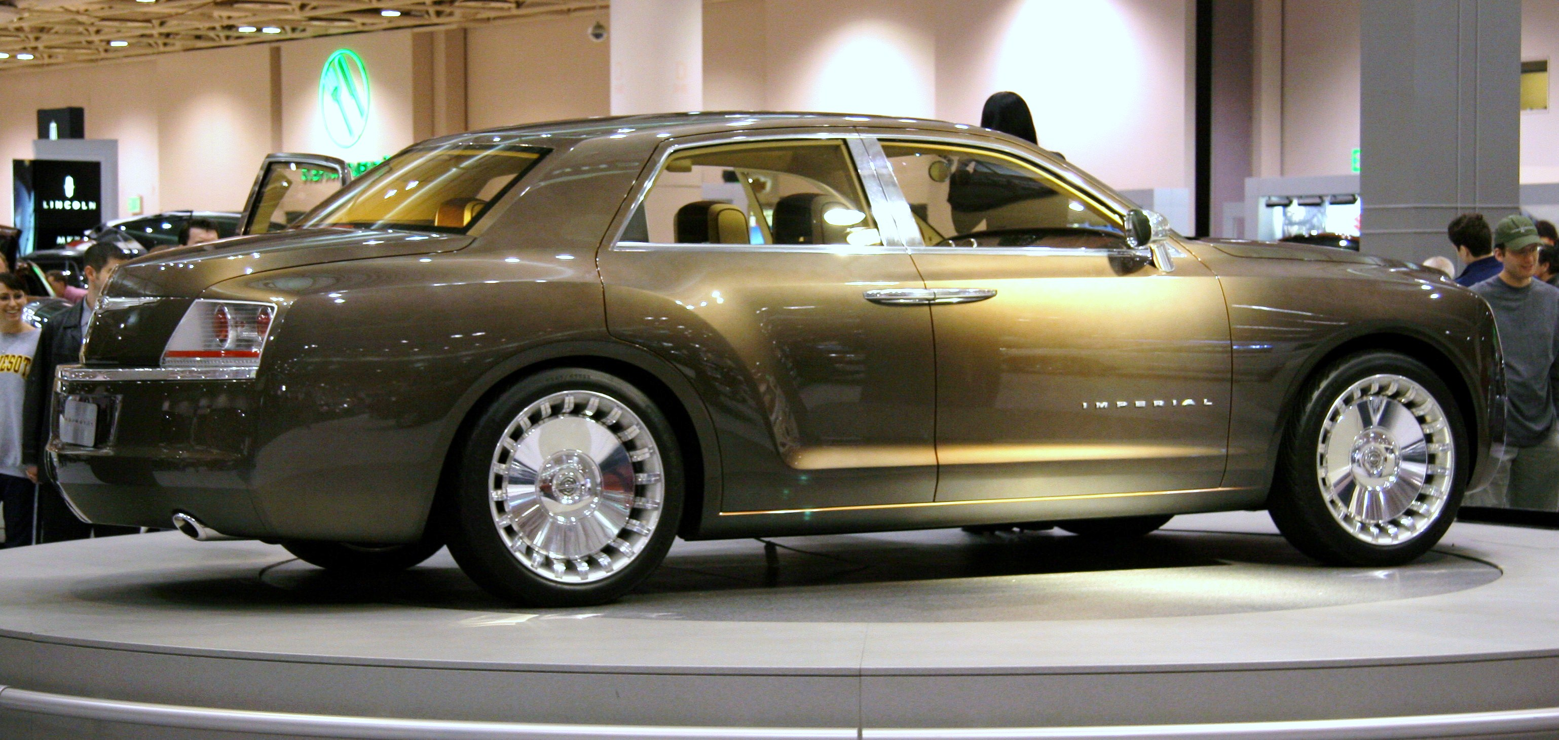 Chrysler Imperial Concept